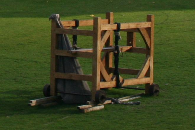 Edited version of Commons-file London Tower Springald and Perrier.jpg